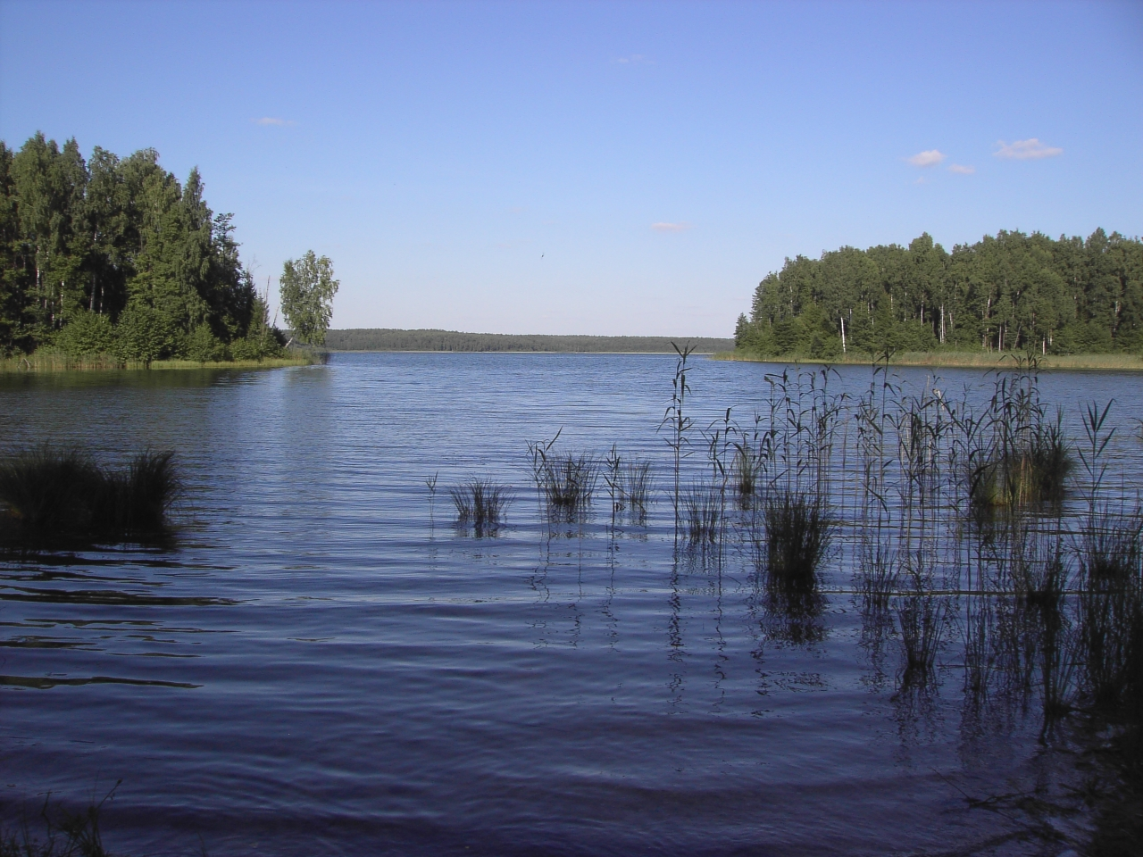 Lake Šventas, Zarasai district, Lithuania